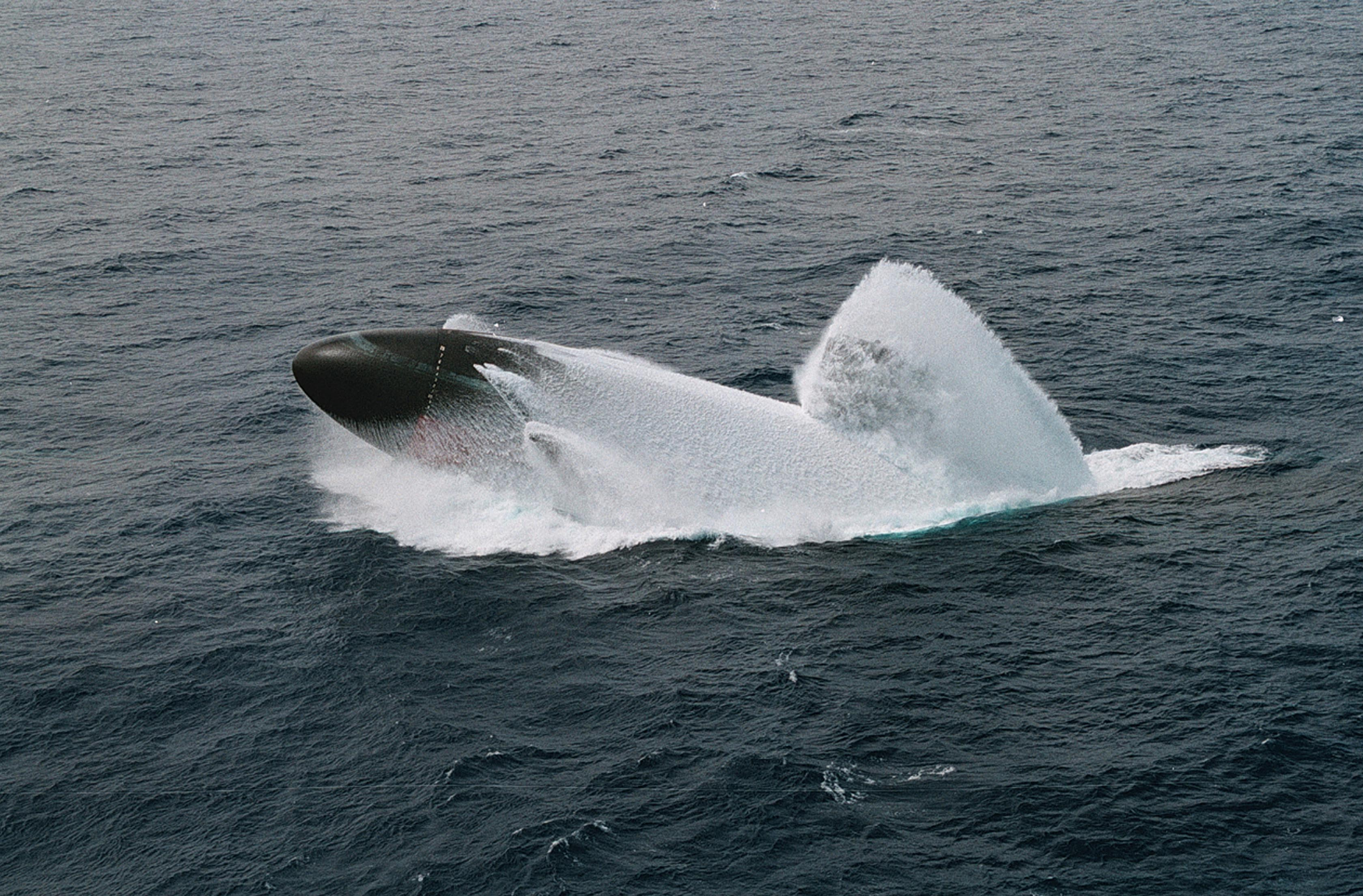 980604-N-7726D-002 Pacific Ocean, (Jun 4, 1998) The attack submarine USS Columbus (SSN 762) home ported at Naval Station Pearl Harbor, Hawaii, conducts an emergency surface training exercise, 35 miles off the coast of Oahu, HI. U.S. Navy photo by Photographer's Mate 2nd Class David C. Duncan (RELEASED)